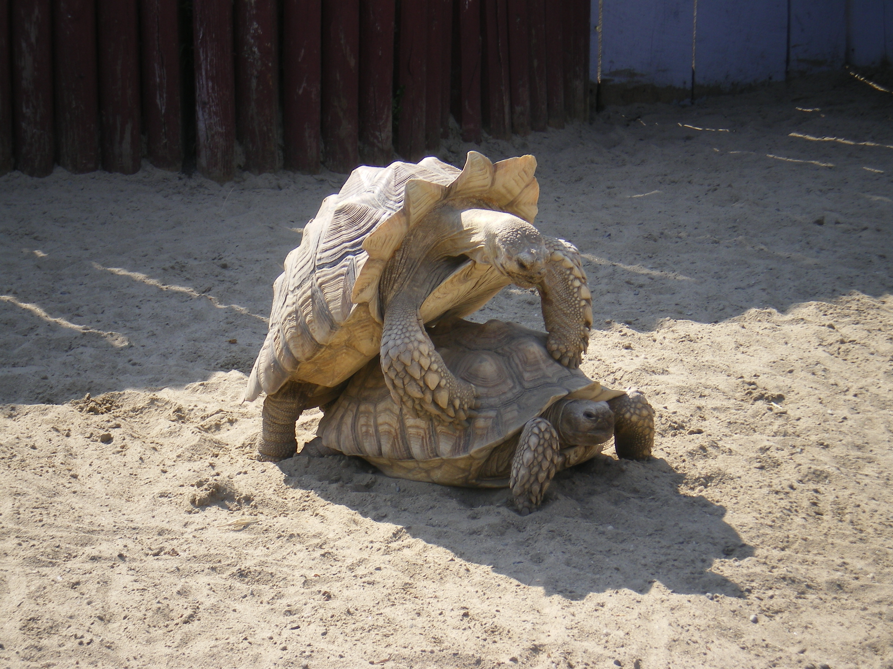 Pair of African spurred tortoises (Centrochelys sulcata) mate in a zoo. Tortoises mating.